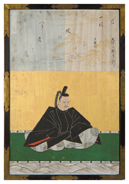 Sanjūrokkasen-gaku (Thirty-six Poetry Immortals framed picture) #28: Ōnakatomi no Yoritomo Asomi